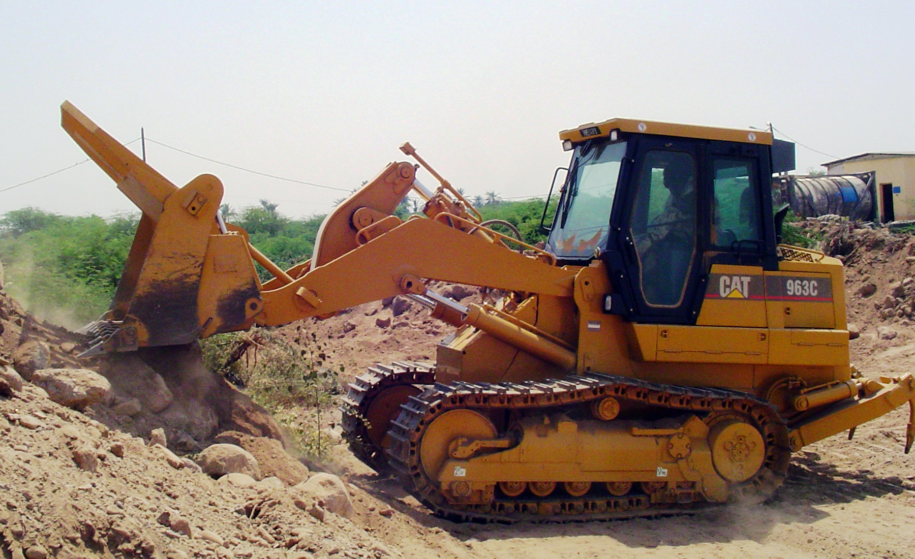 A track loader used by the US military in Djibouti, July 11th, 2005.